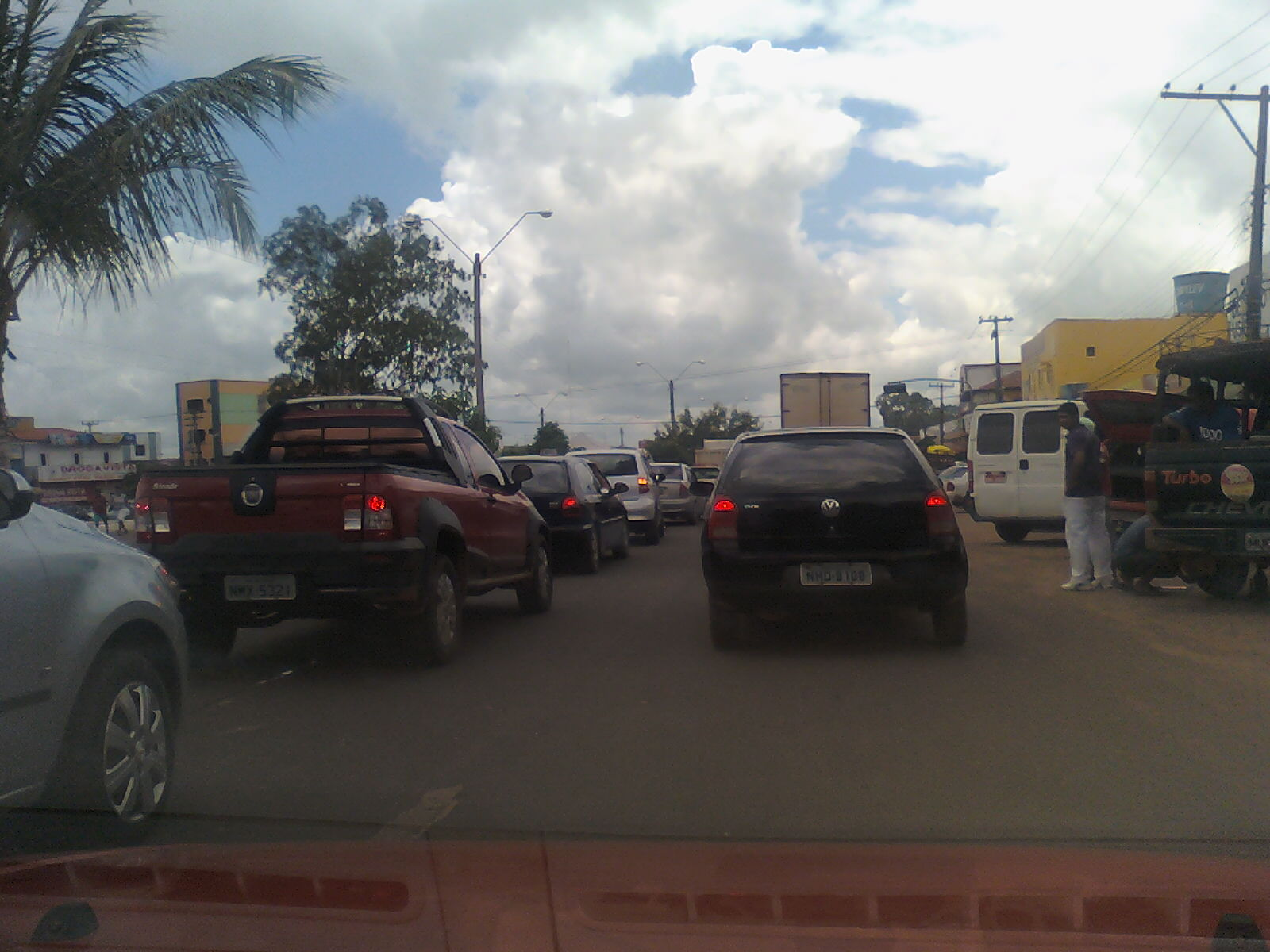 city